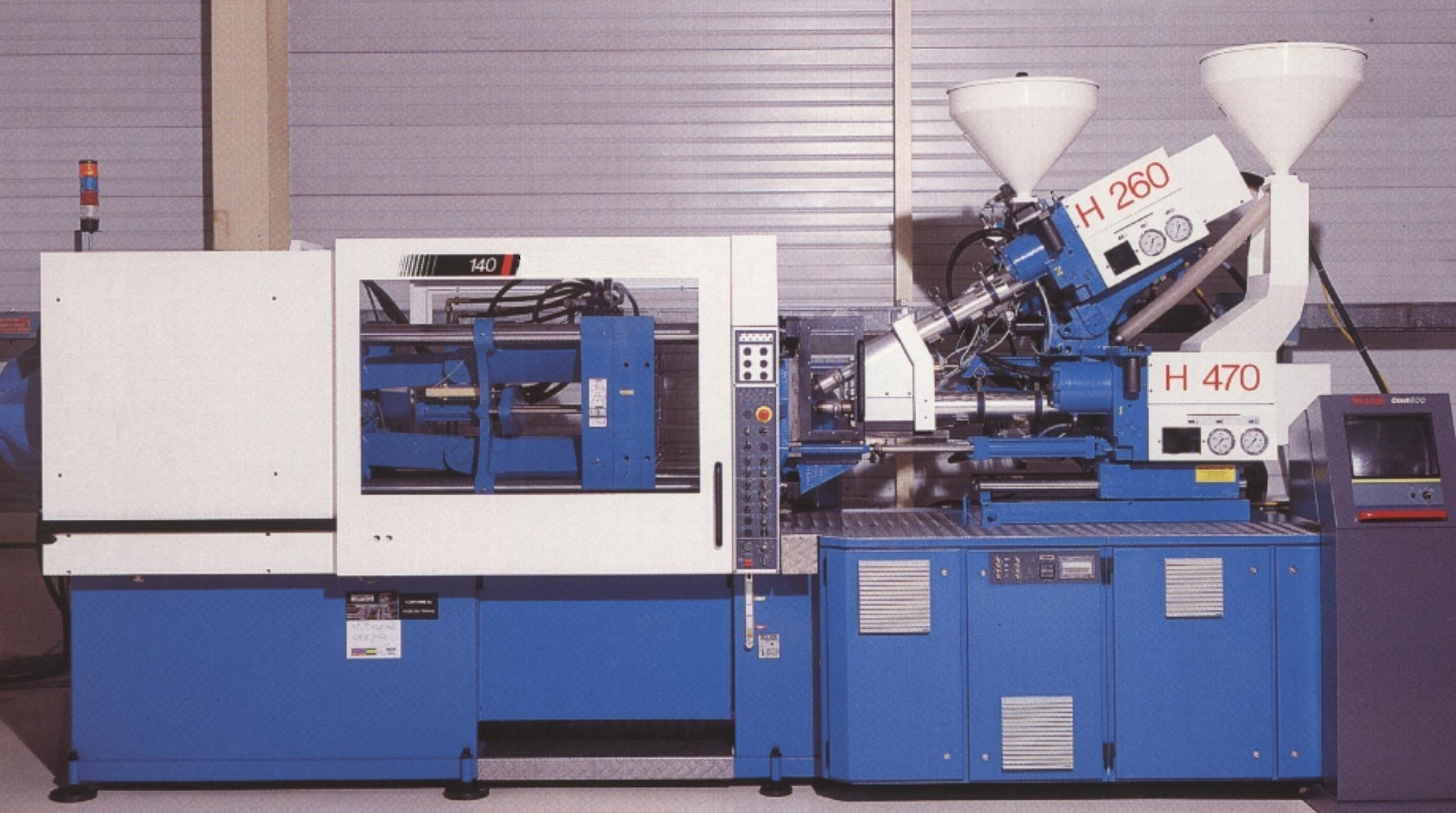 Bi-material molding machine for thermoplastic granules. "H" means Horizontal injection and clamping units. Concerning this model: maximum clamping force = 1,368 kN that is ~140 "tonnes"; the shot volume is different for each injection unit.